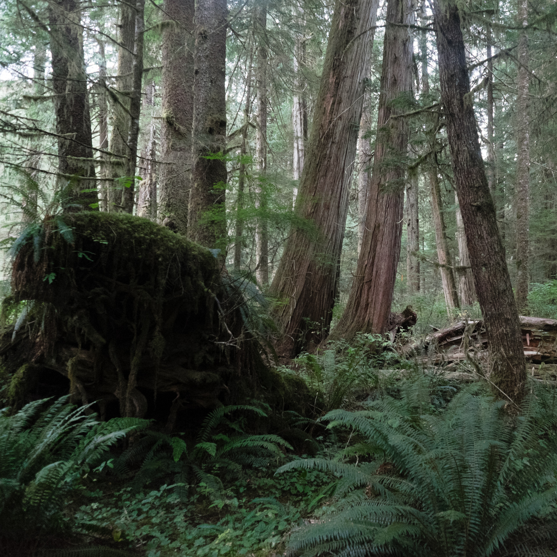 Old growth Red Cedar (Thuja Plicata) in the upper West Walbran valley near Anderson Lake.